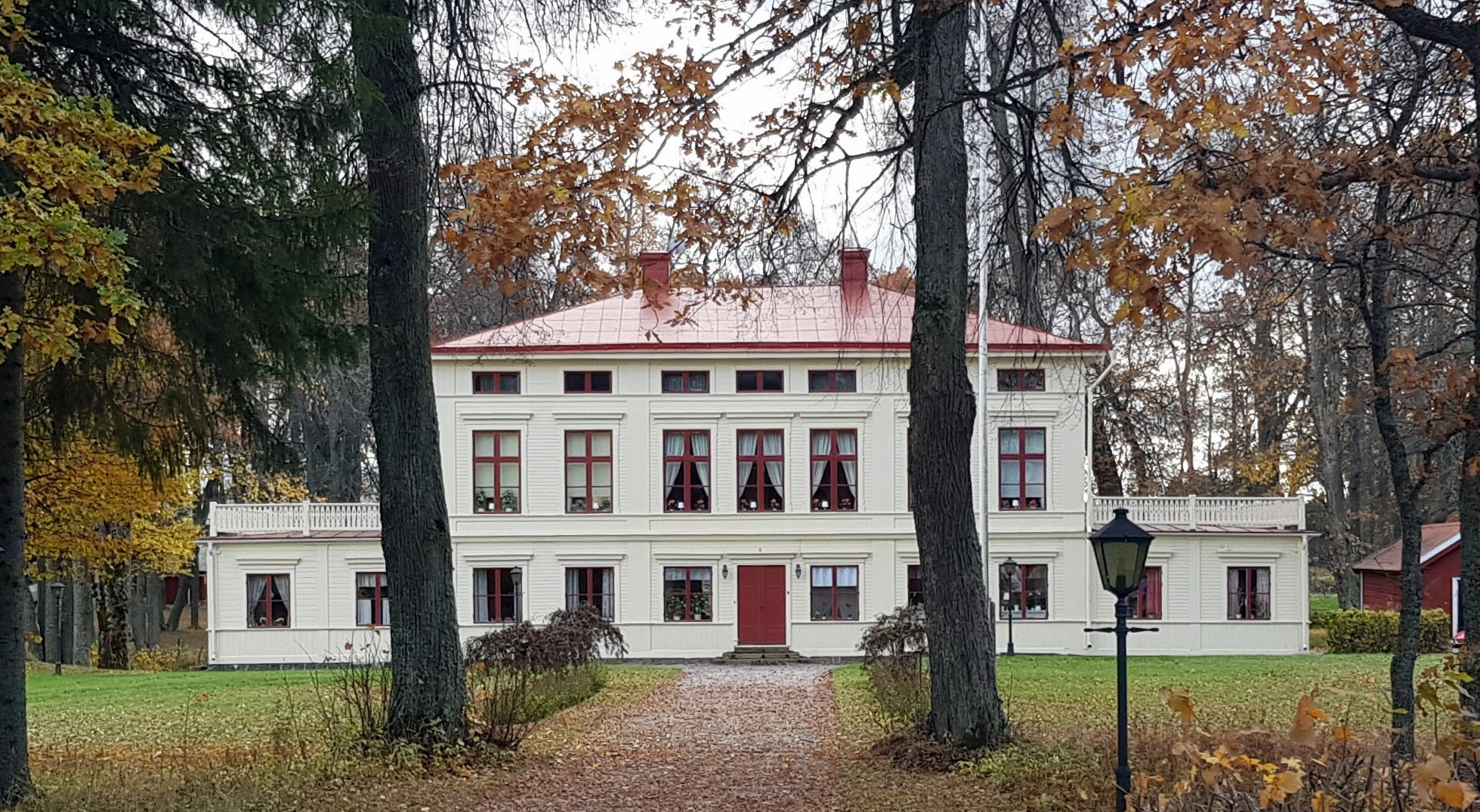 This is Åby Farm in Valbo, just outside Gävle